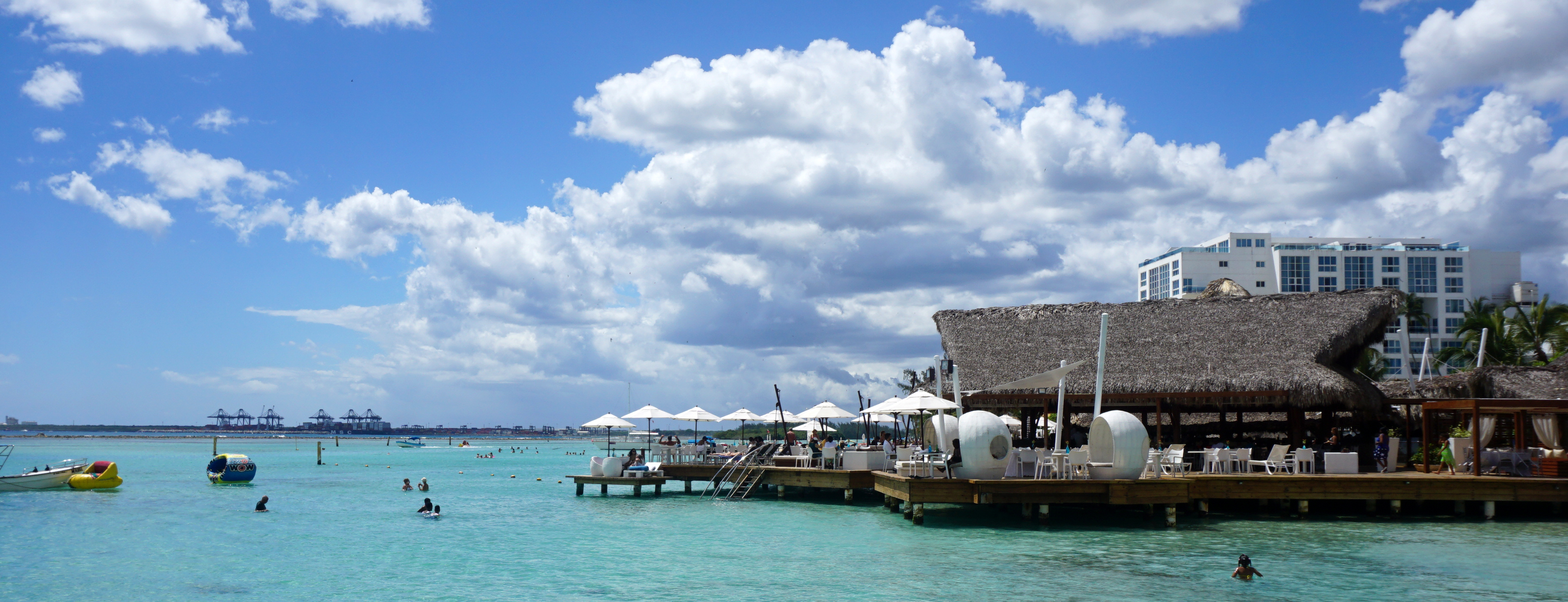 Boca Chica beach, Dominican Republic.